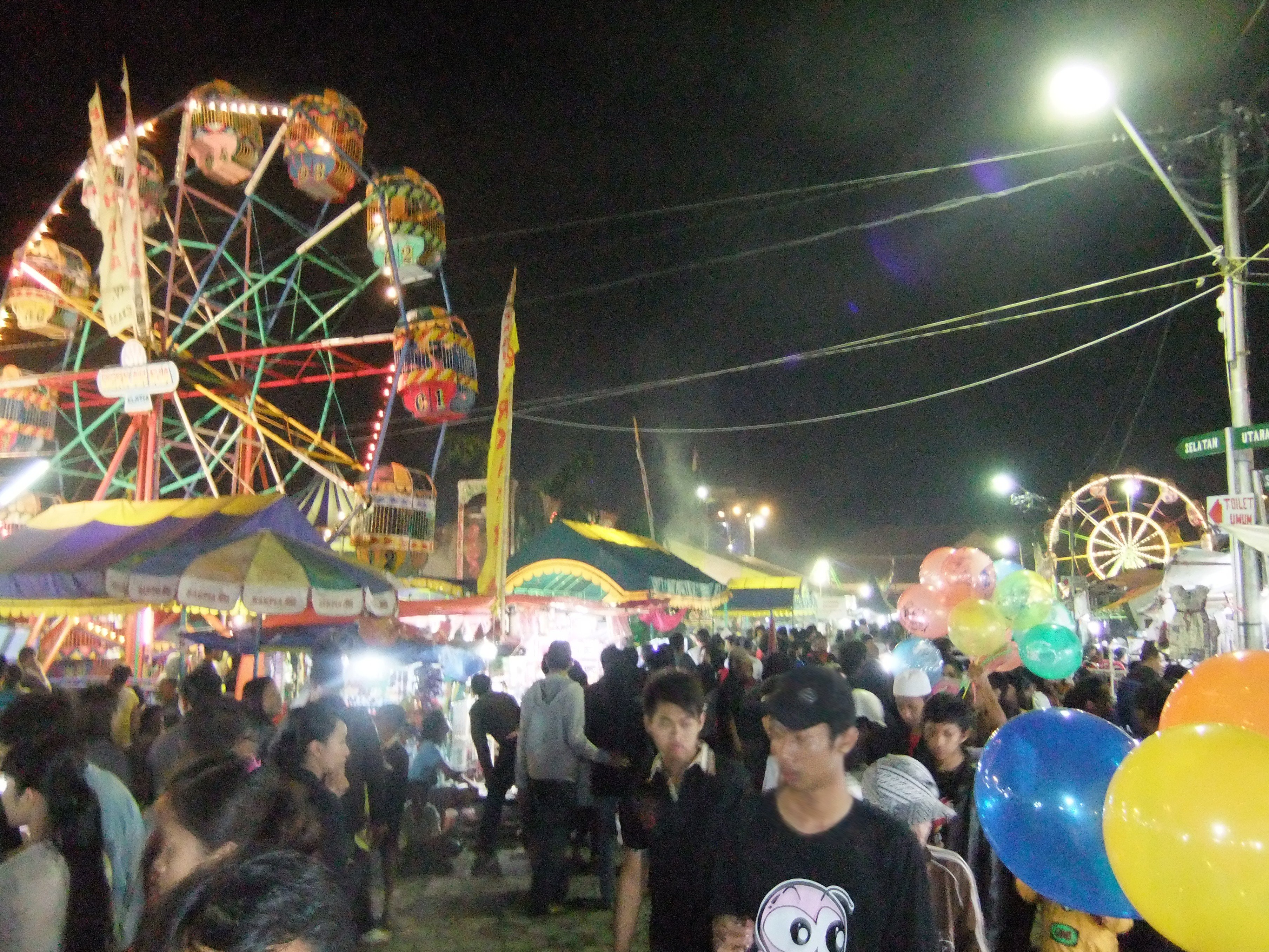 Sekaten Night Market, Yogyakarta, 2011